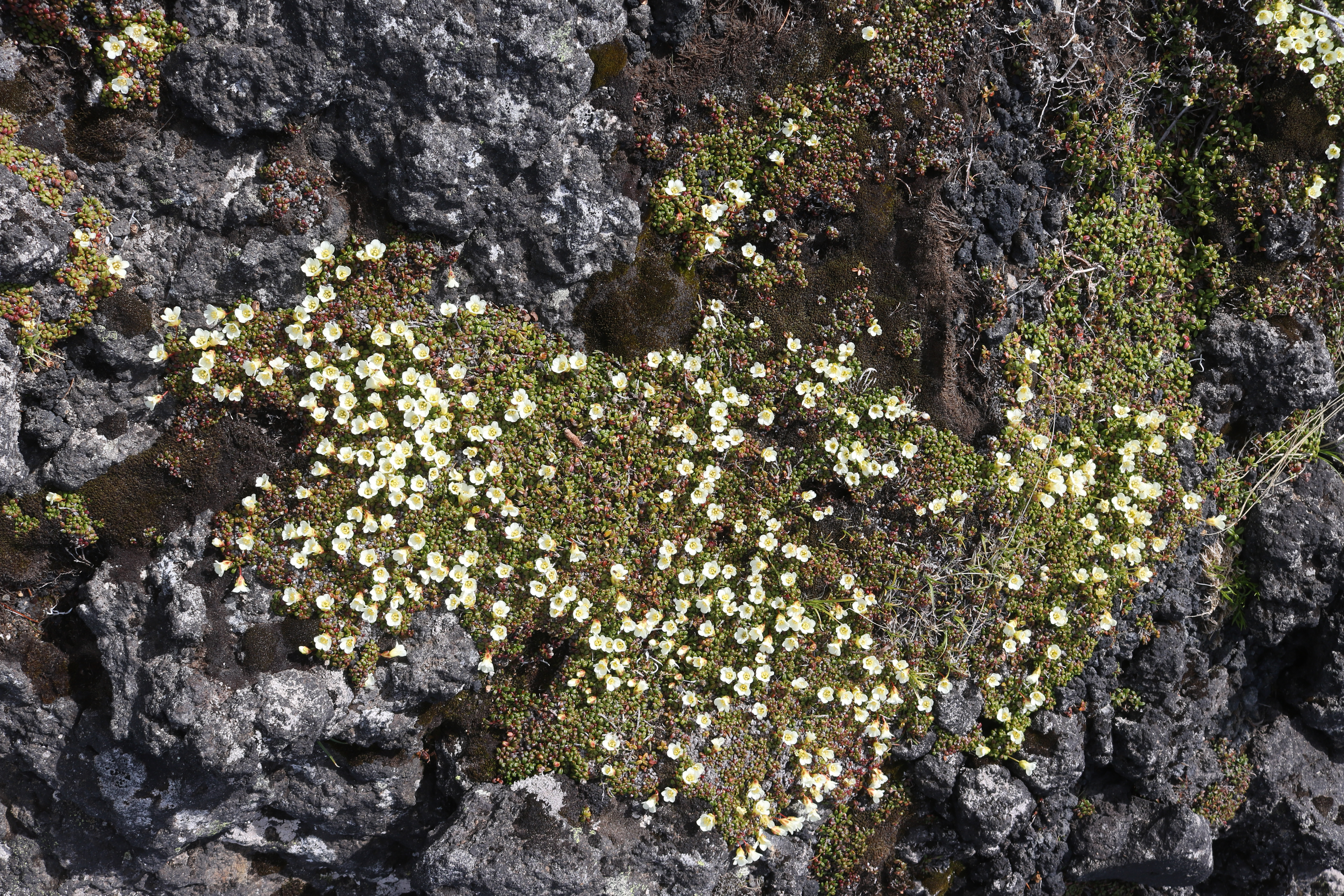 Diapensia lapponica in Mount Ontake, Gero, Gifu Prefectue, Japan.